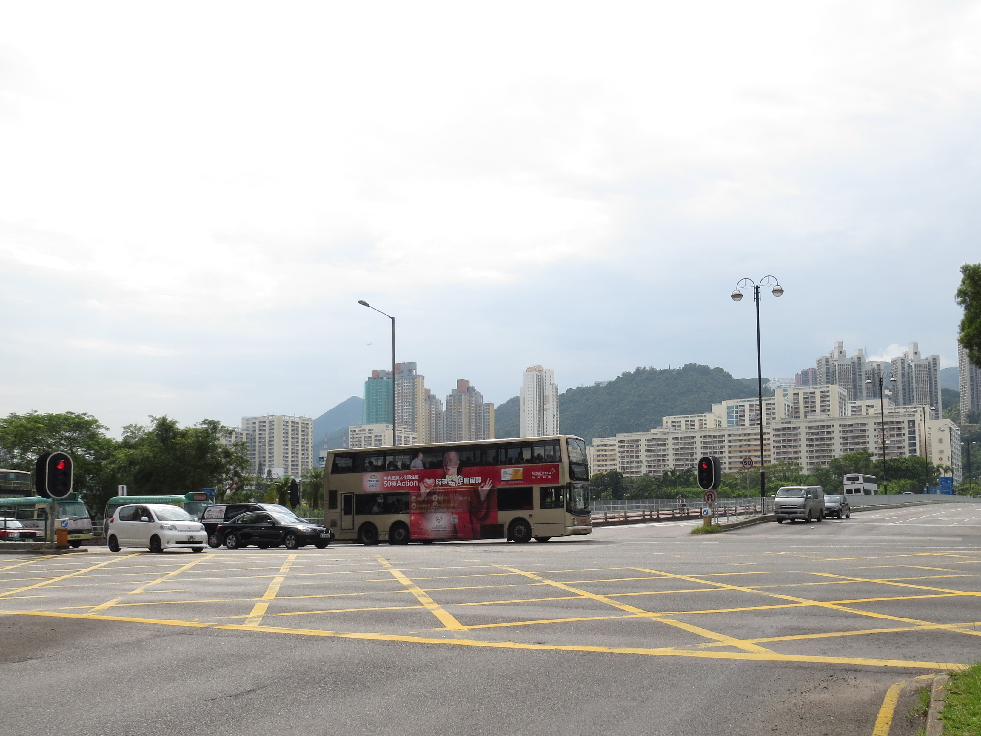 Intersection of Banyan Bridge and Tai Chung Kiu Road, Sha Tin, New Territories, Hong Kong. 中文（香港）: 香港新界沙田翠榕橋與大涌橋路交界